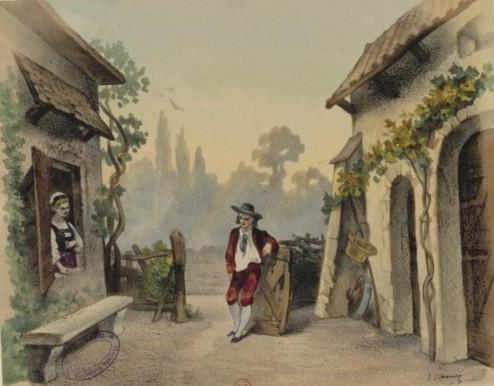 Lithography about the Opera "Mirèlha"